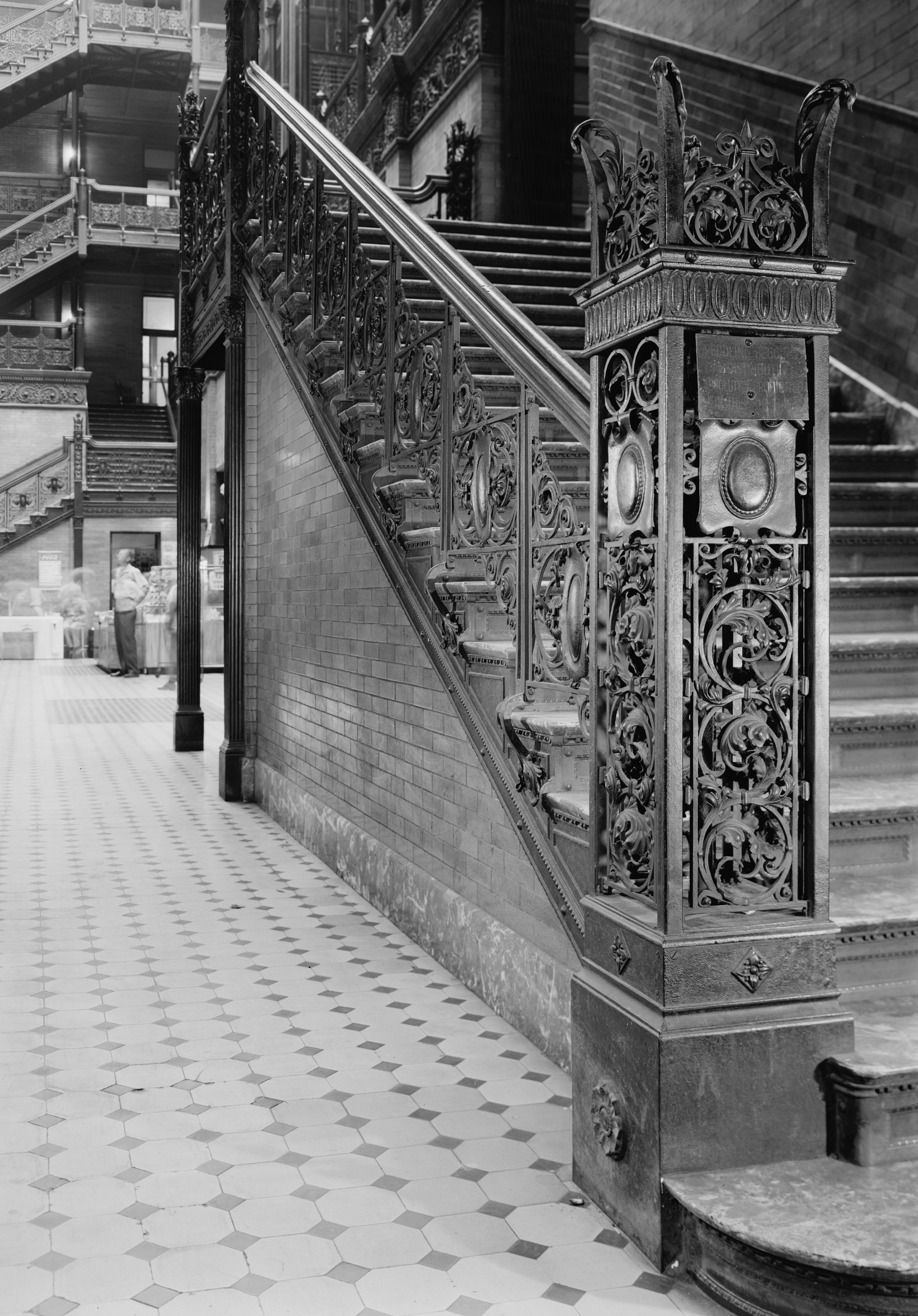 Detail of main stairs and ornamental ironwork at entrance to Bradbury Building, Downtown Los Angeles. Courtesy of the Historic American Buildings Survey, Library of Congress, Washington, D. C.